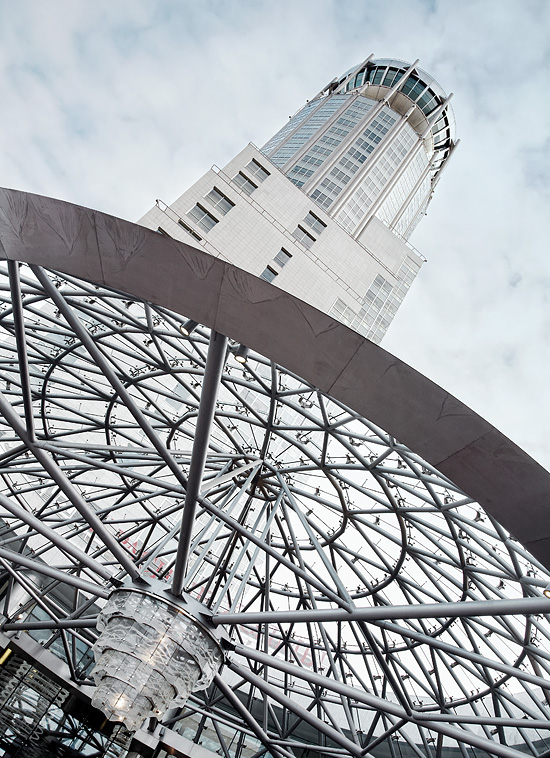 Swissotel Krasnye Holmy Moscow - one of the tallest hotels in the world